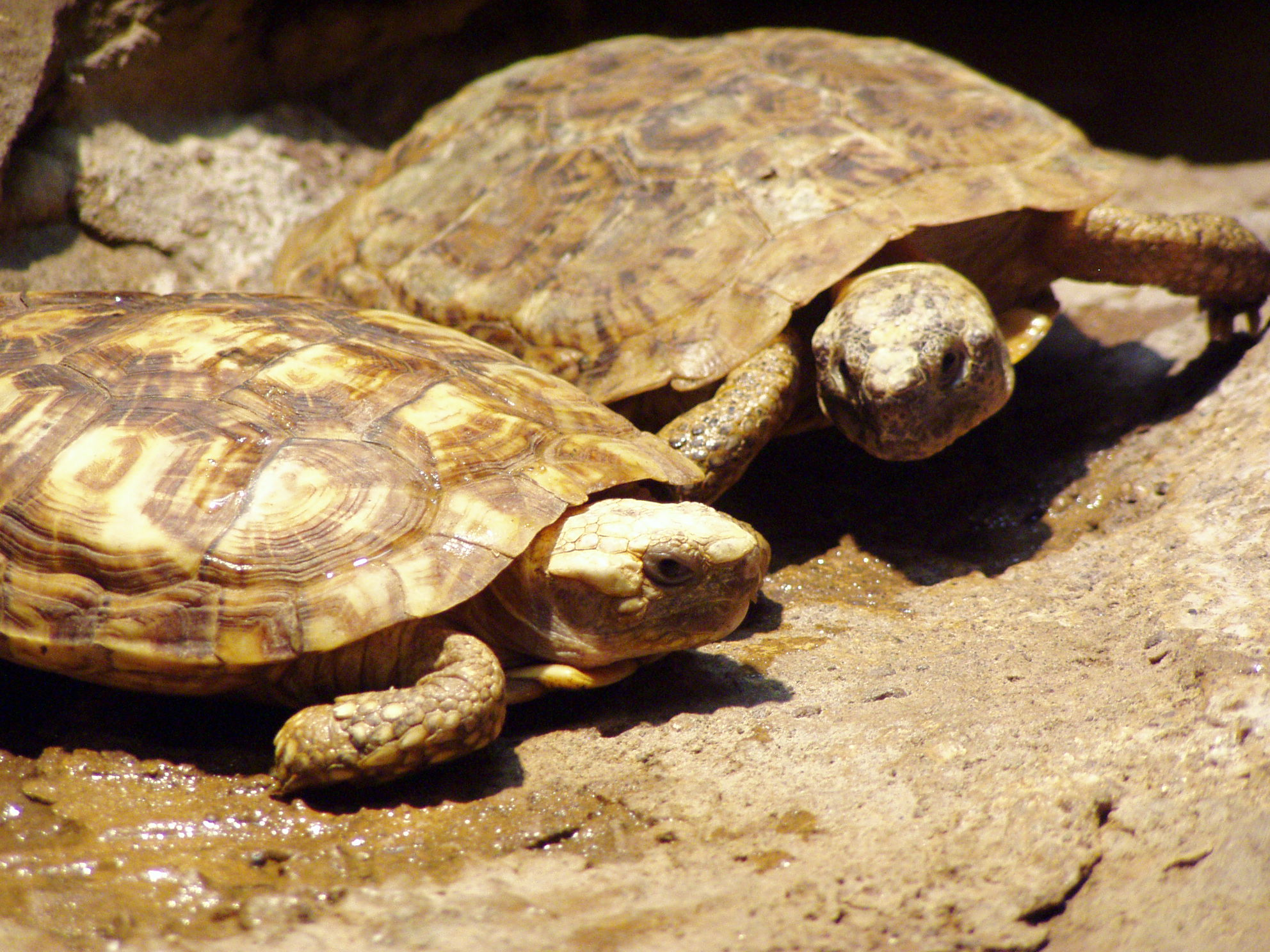 Two Pancake Tortoises at the Buffalo Zoo.